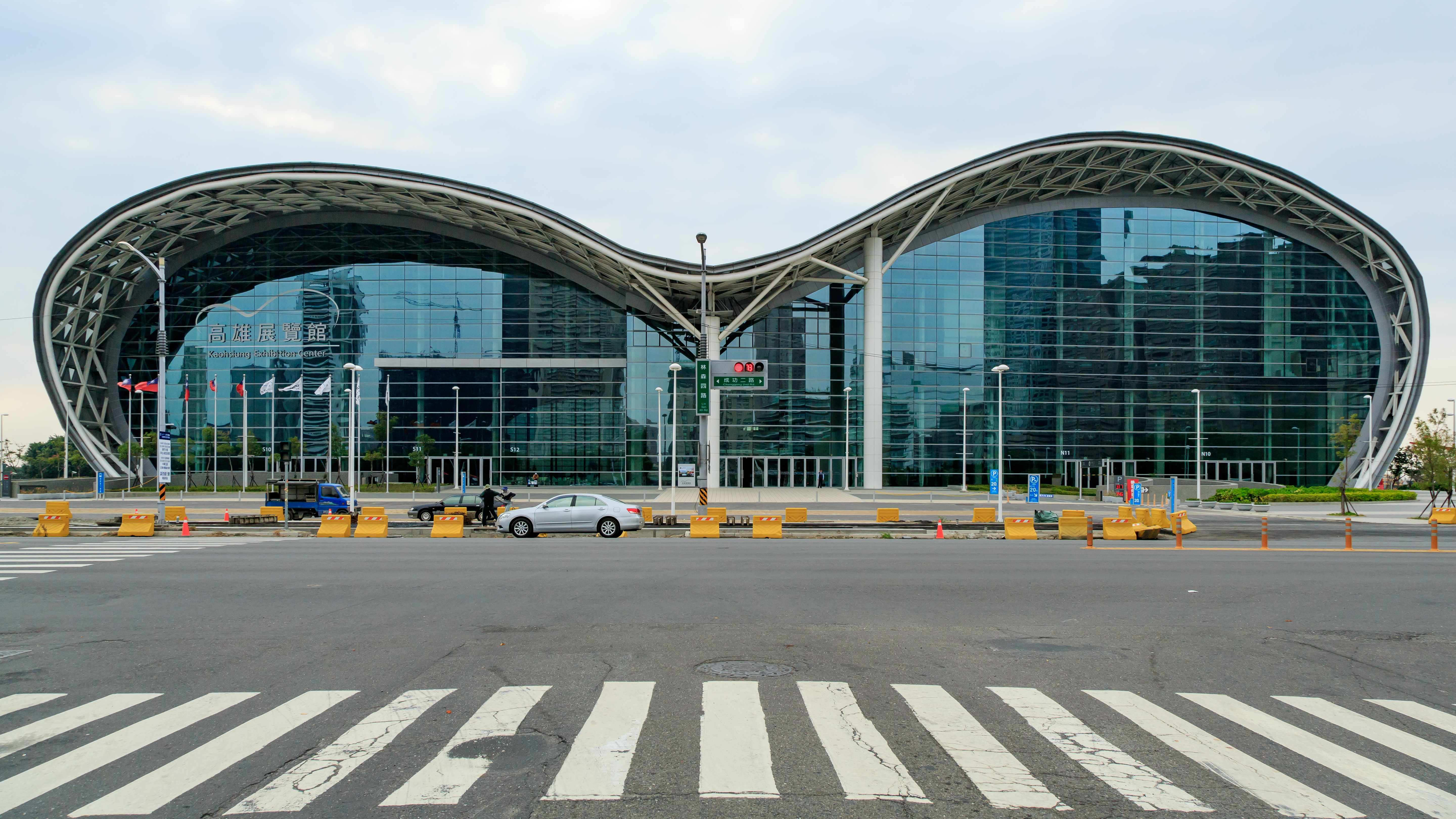 Kaohsiung, Taiwan: The new Kaohsiung Exhibition Center.